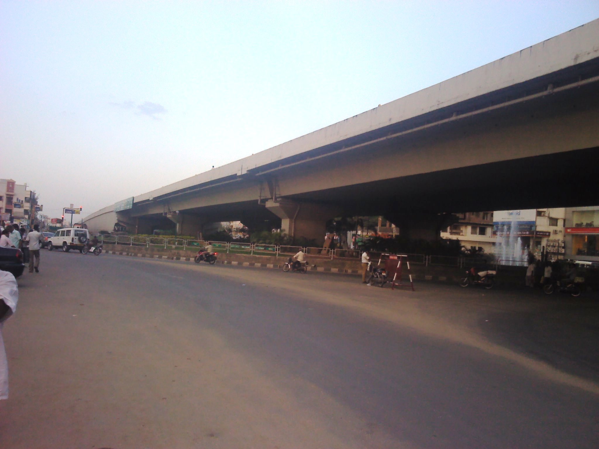 Flyover on National Highway 46, at Vellore.